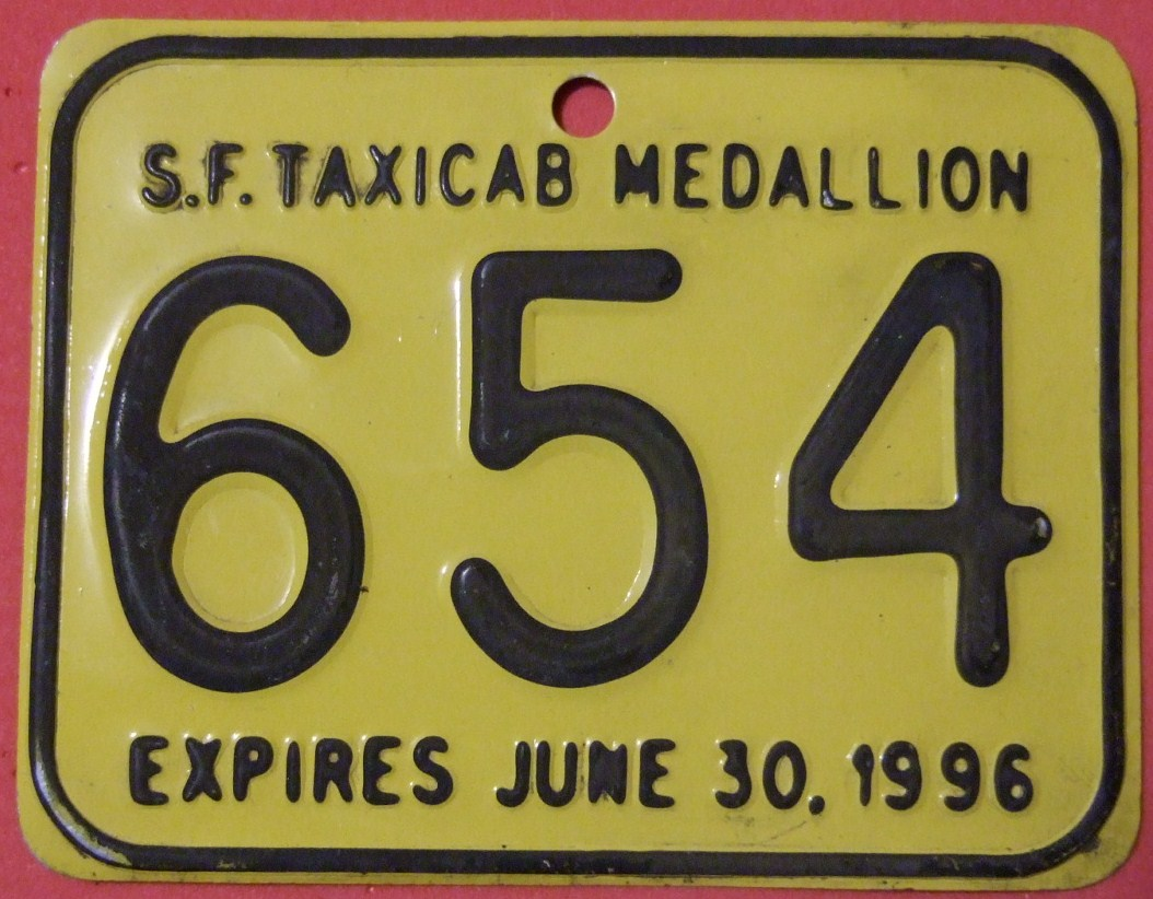 This San Francisco taxi plate is colored reflective black on yellow. In the dark it appears silver on black. The black reflective beading when shone on at night reflects back a silver color.